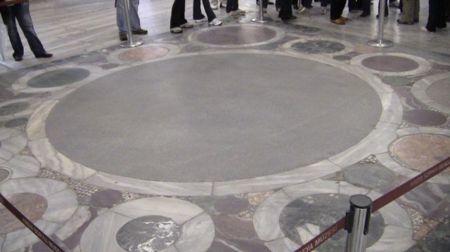 Omphalion, ste-sophie istanbul, Turkey, 15 oct 2011